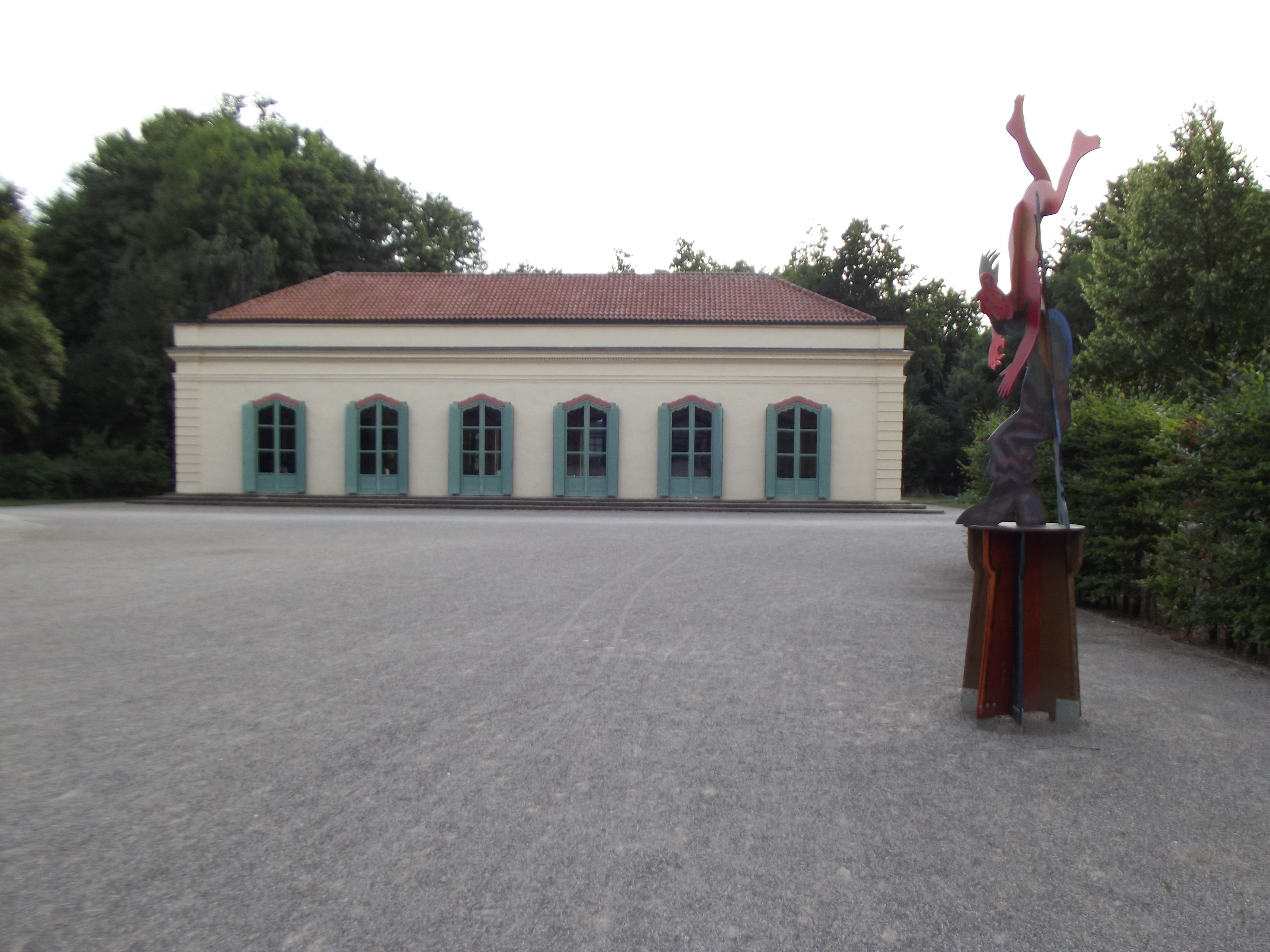 The restored old concerthall in Burgsteinfurt This image shows a heritage building in Germany, located in the North Rhine-Westphalian city Steinfurt (no. 155).